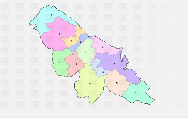 Panchkhal Municipality with it's latest ward number